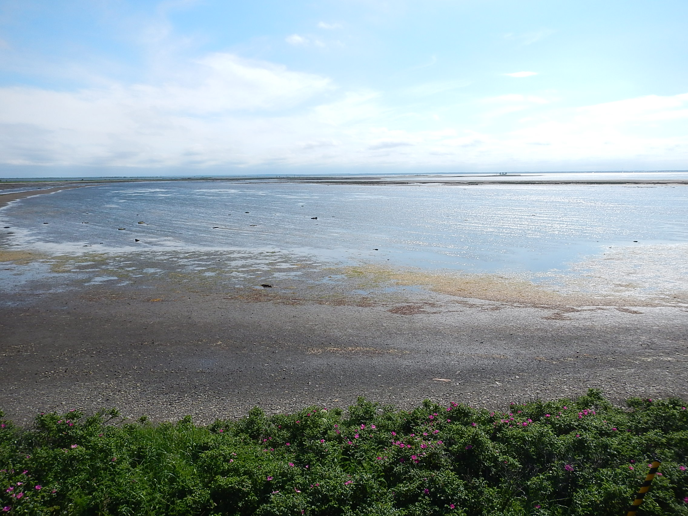 Notsuke Bay as seen from Todowara in Notsuke Peninsula, Hokkaido, Japan.